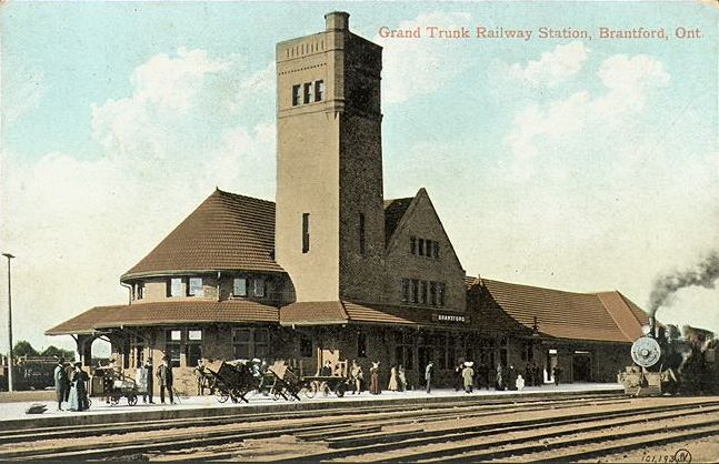 Grand Trunk Railway Station, Brantford, Ont. Valentine & Sons' Publishing Co. Ltd